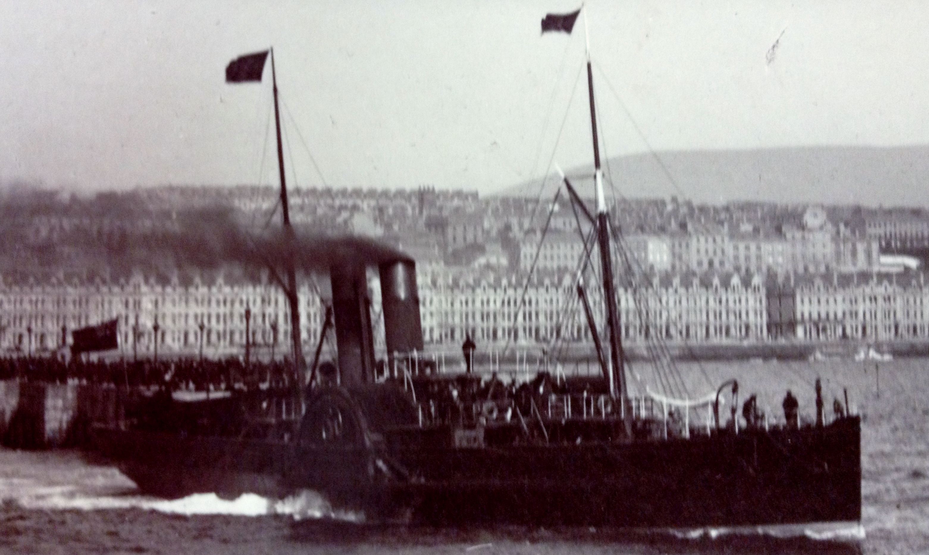 Paddle steamer Tynwald, pictured leaving Douglas